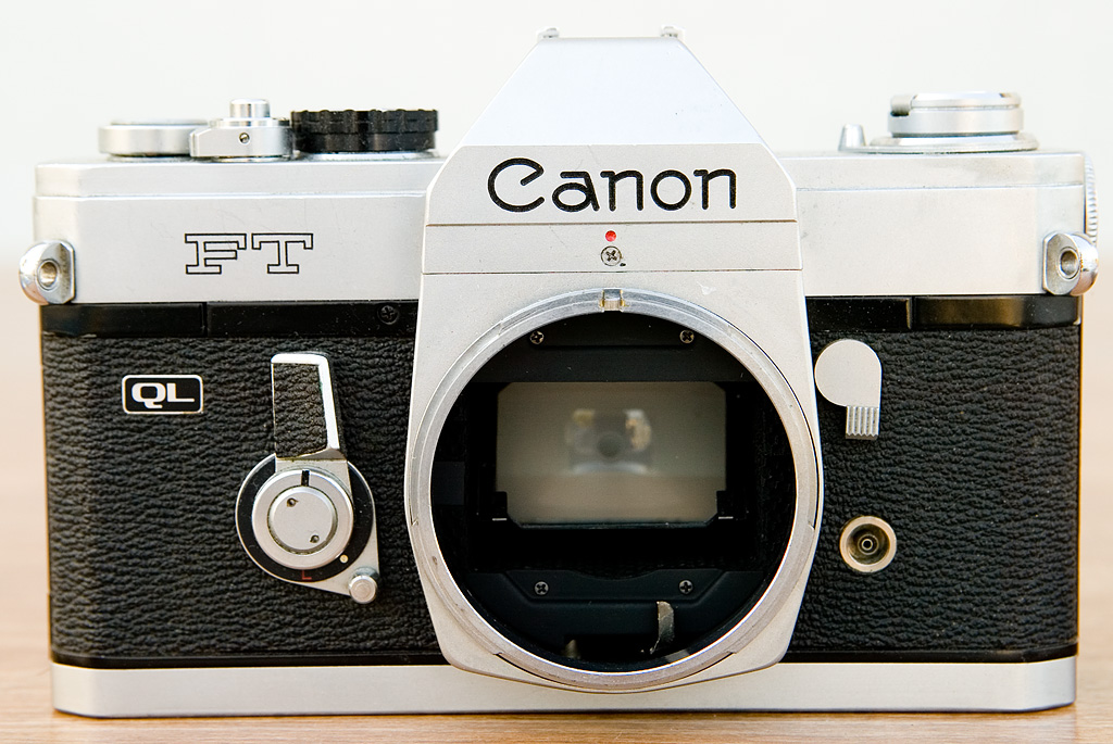 Canon FT-QL 35mm film single lens reflex camera.